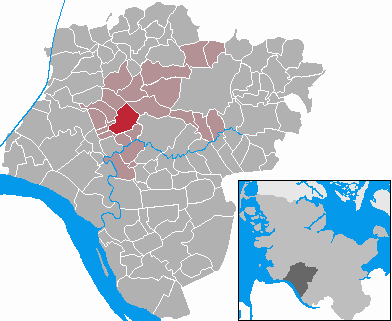 This map shows the area of the municipality Oldendorf in the Kreis (district) Steinburg, Schleswig-Holstein, Germany.